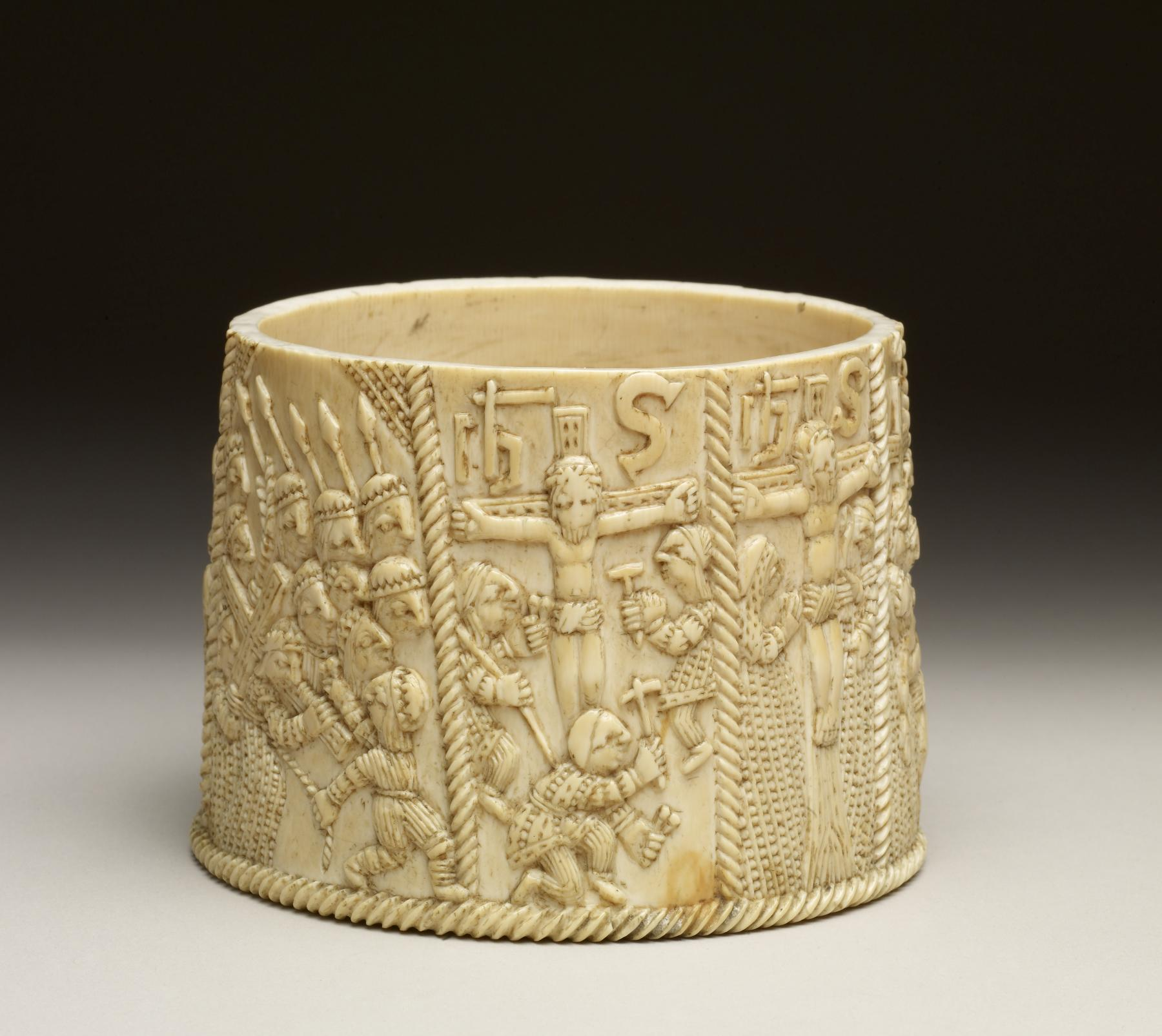 This pyx, a container used in the Catholic Mass for the consecrated wafer, has lost it cover. The artist was an ivory carver of the Sapi people of coastal West Africa who was working on commission from a Portuguese trader who expected to sell such exotic objects to princely patrons in Europe. The images of the Passion of Christ are taken from a contemporary European illustrated Bible. Most of the works in ivory commissioned from West African carvers were for conspicuous display, such as magnificent salt cellars for the tables of the wealthy, but they all share the treasured characteristic of intricate surface design. One Portuguese writing in the 16th century described these carvers as "very ingenious, and their objects, wonderful to see." The Sapi style of ivory carving is evident in the dense mass of figures and the textured, linear design.